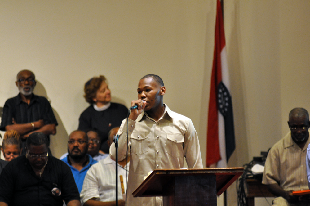 Nation of Islam speaker.